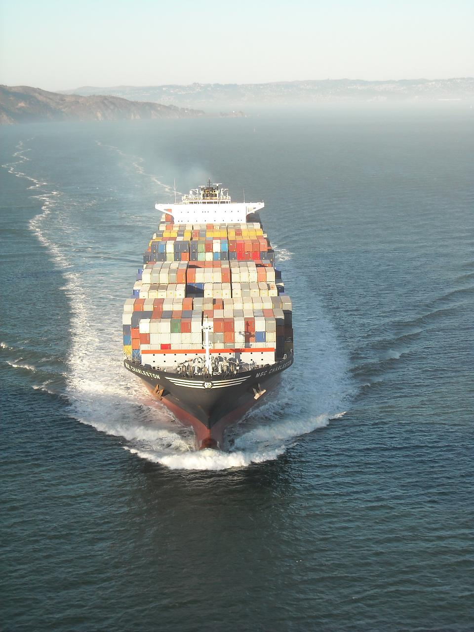 Coincidentally, container ship MSC Charleston was heading under the bridge when I was there. IMO Number: 9299537 MMSI Number: 636091070 Callsign: A8JC5 Length: 325 m Beam: 43 m